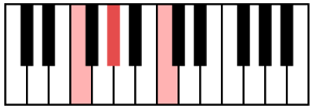 f minor chord